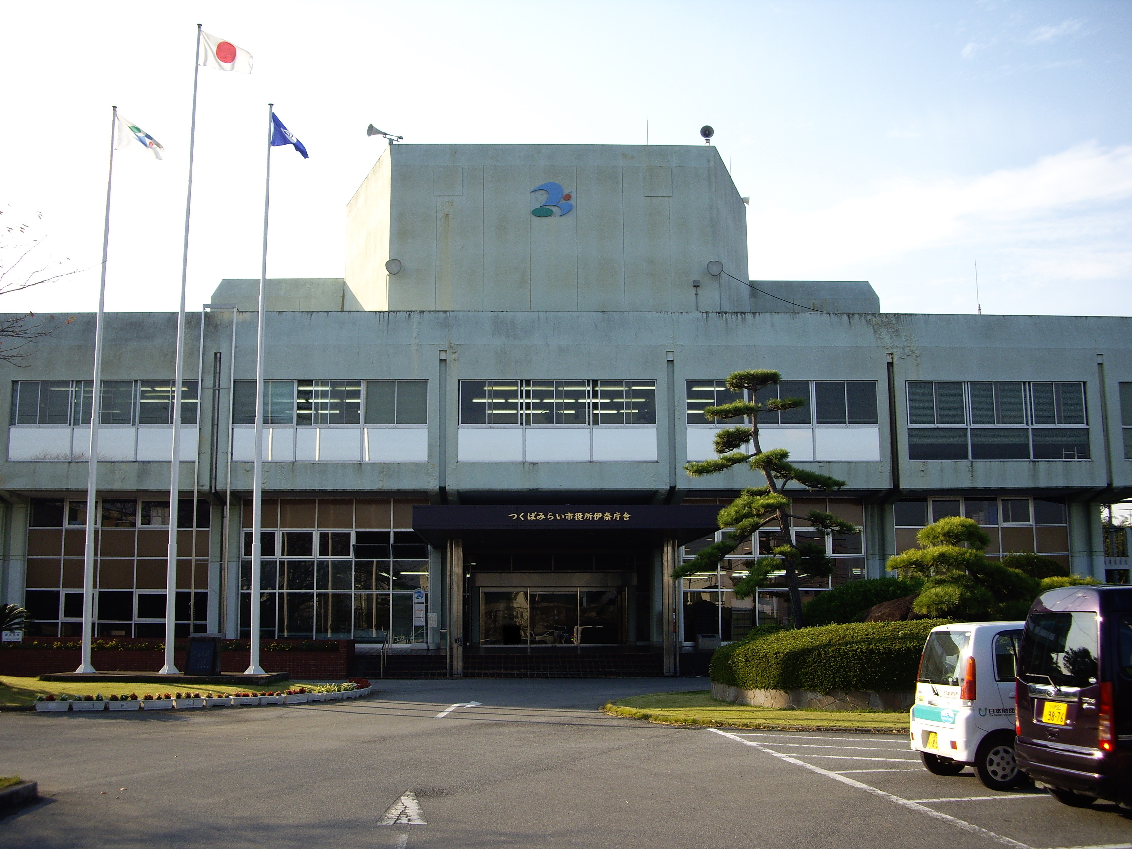 Tsubakimirai City Hall, Tsubakimirai, Ibaraki, Japan